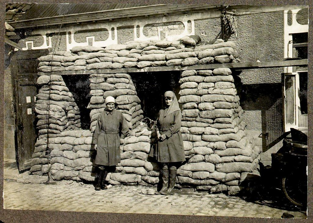 derde